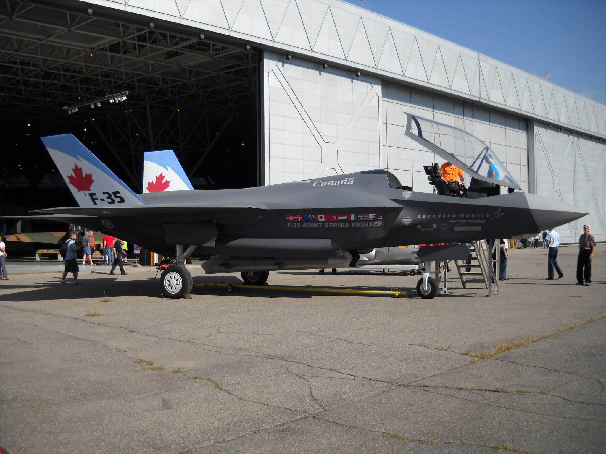 A wooden mock-up of the Lockheed Martin F-35 Lightning II in Canadian Forces markings at the Classic Air Rallye, Canada Aviation and Space Museum, Rockcliffe Airport, Ottawa Ontario, Canada